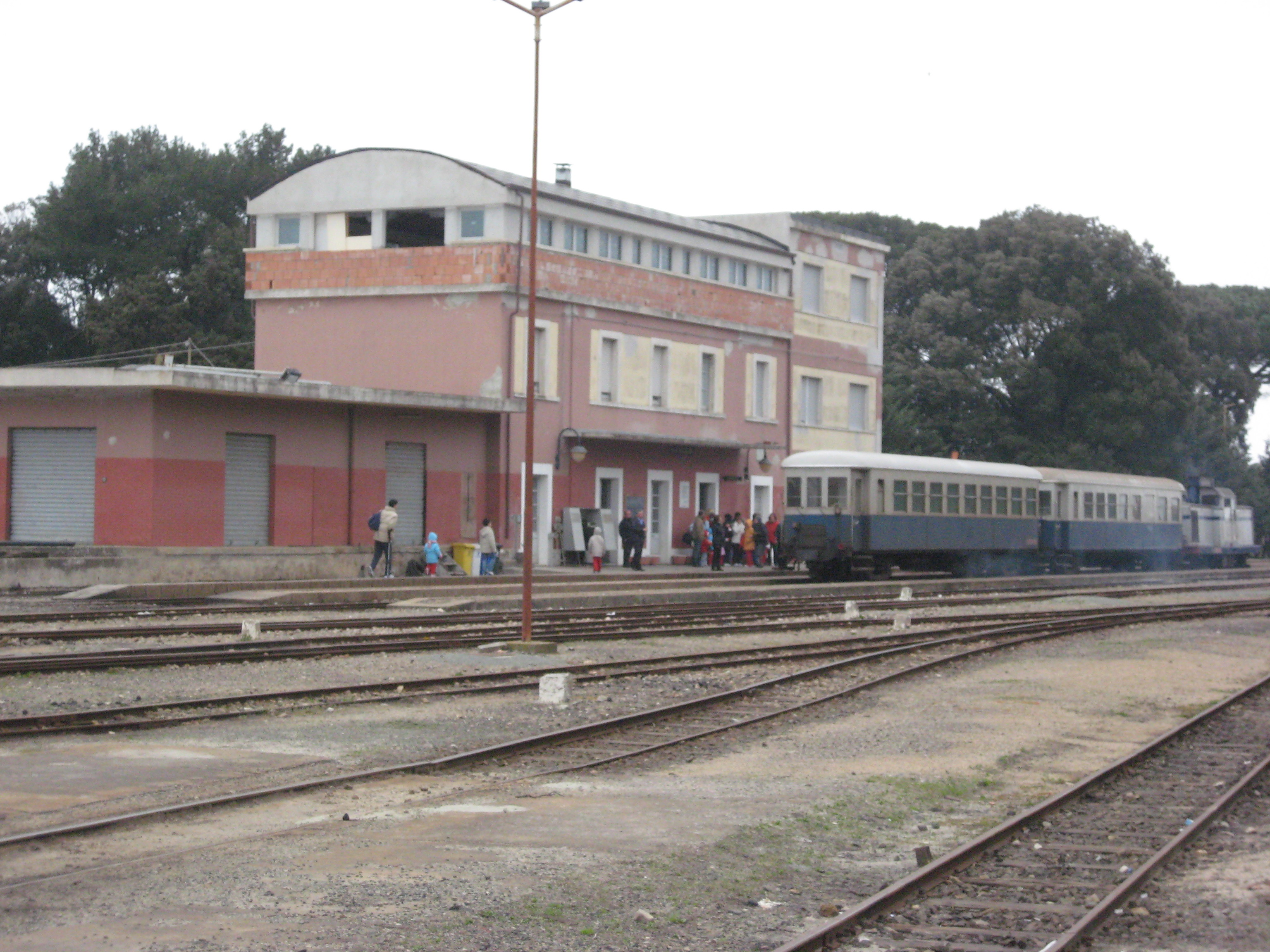 The Mandas railway station, in Sardinia